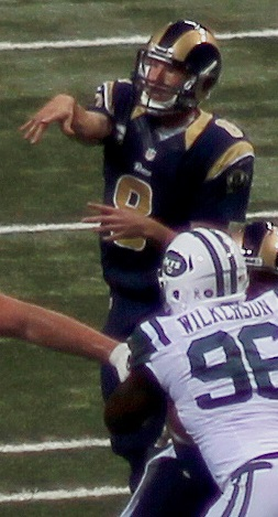 Bradford makes a toss.